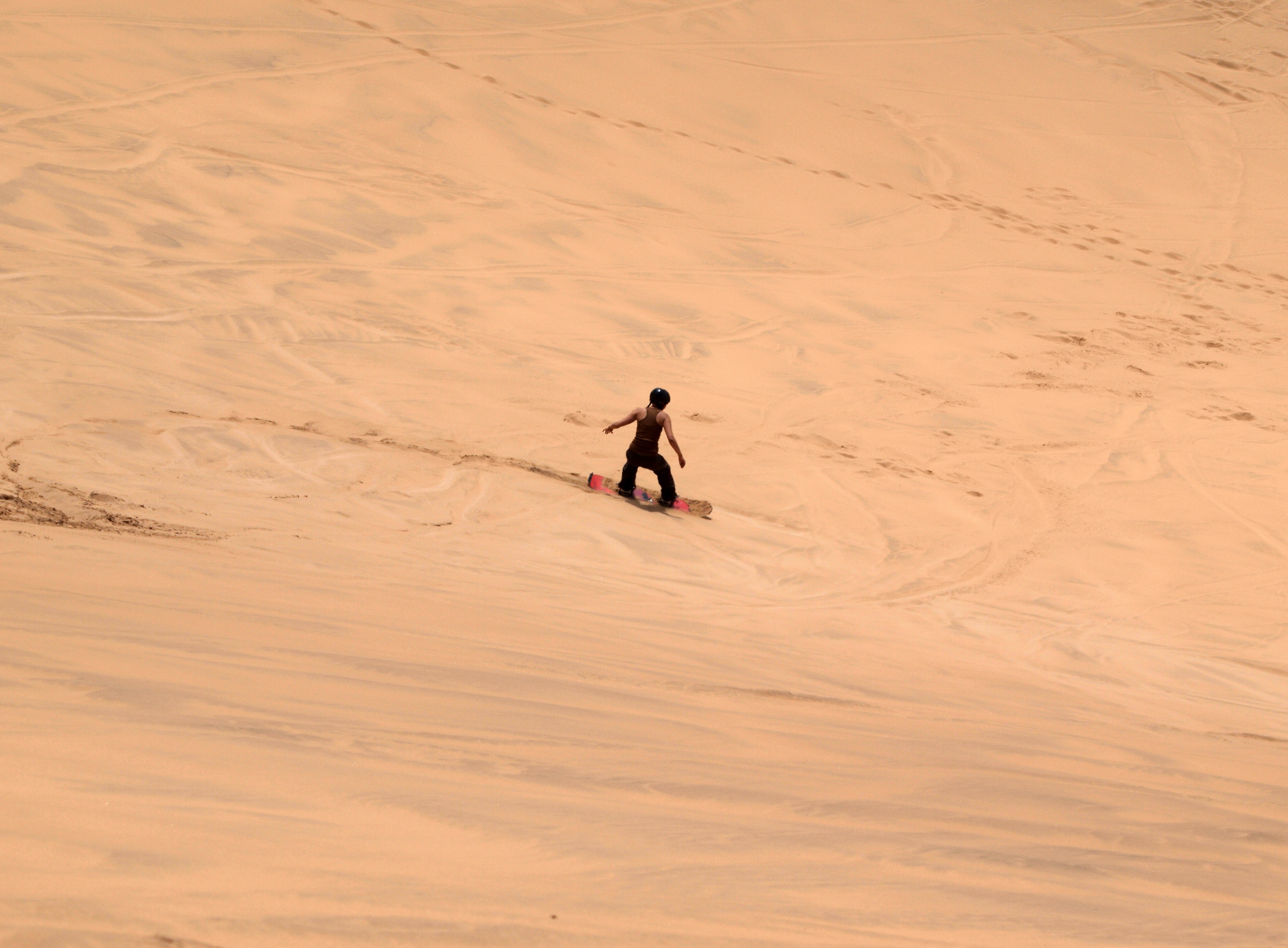 Nabimia, Swakopmund. Sandboarding activities, Swakopmund.